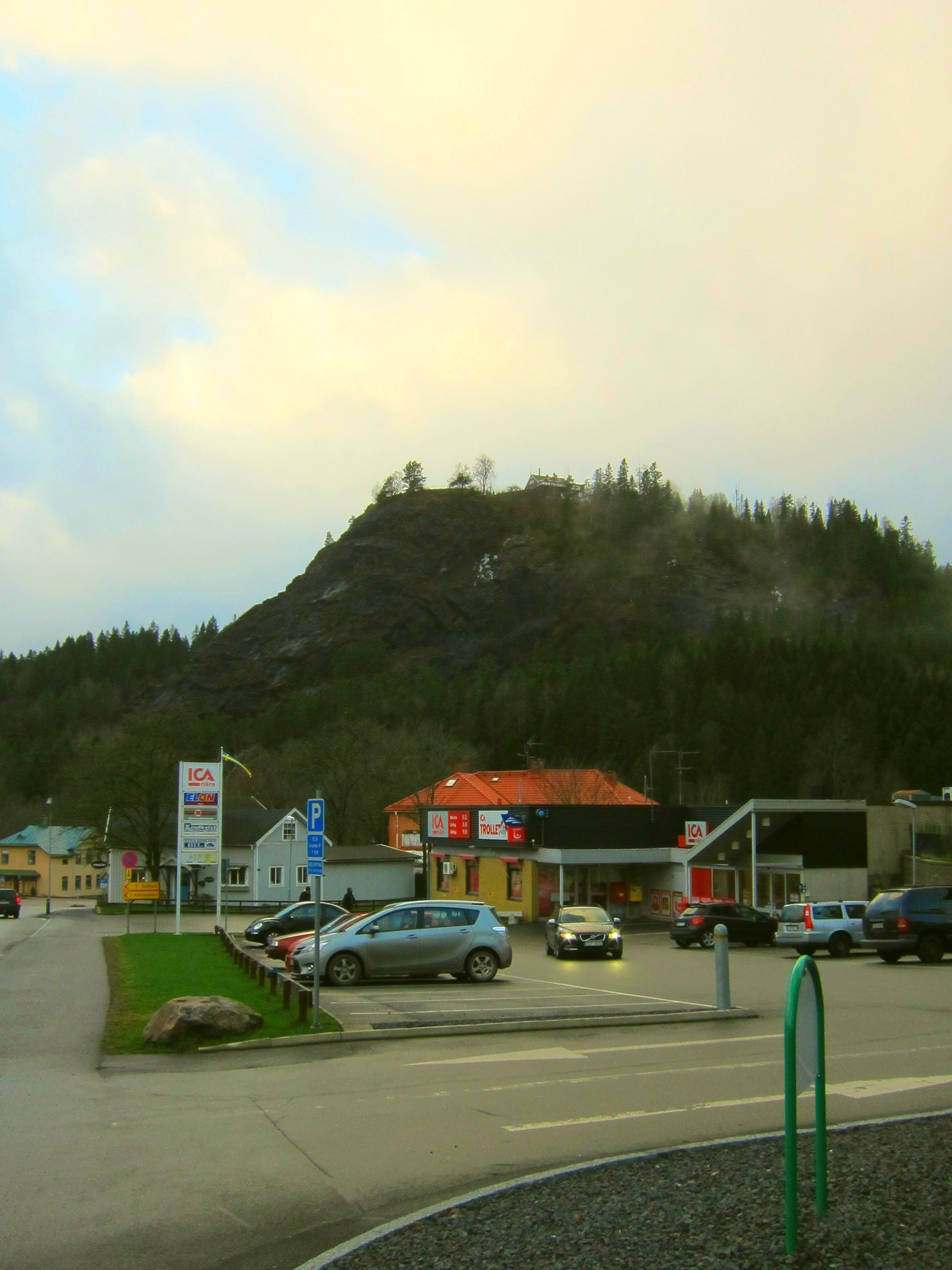 Taberg the village and the mountain with the same name